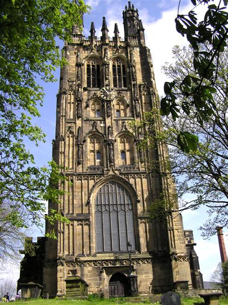 St Giles Parish Church, Wrexham. It is a short walk from the town centre